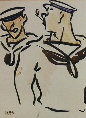 Francis Cadell: Two sailors; ink and watercolour, 9 x 7 inches